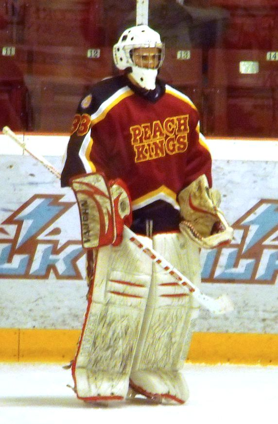 These images of OHA Jr. C action during the 2011-12 season are taken by Devan Mighton.